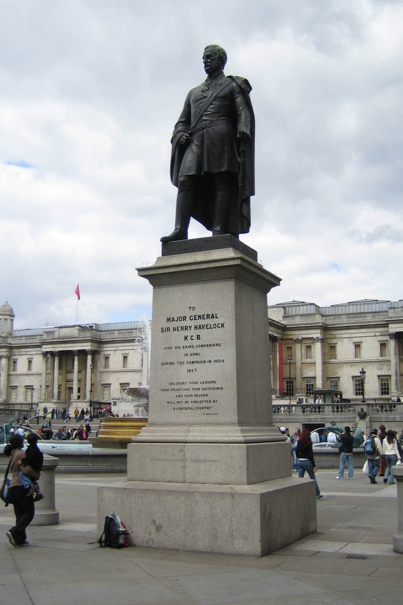 Statue of Sir Henry Havelock in Trafalgar Square